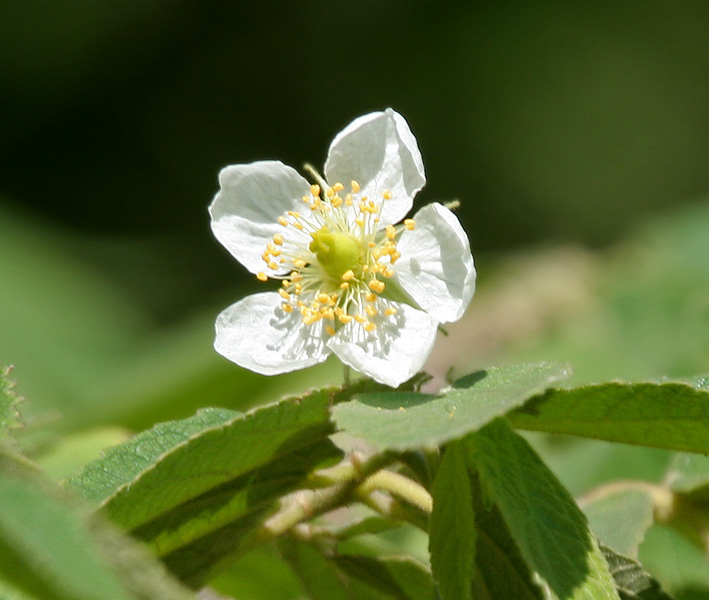 Singapur cherry, Jamaican cherry, Panama berry, Strawberry tree, gasa gase mara, Bird's cherry, poor man's cherry, Jam tree or Cotton candy berry Muntingia calabura in Hyderabad , India.